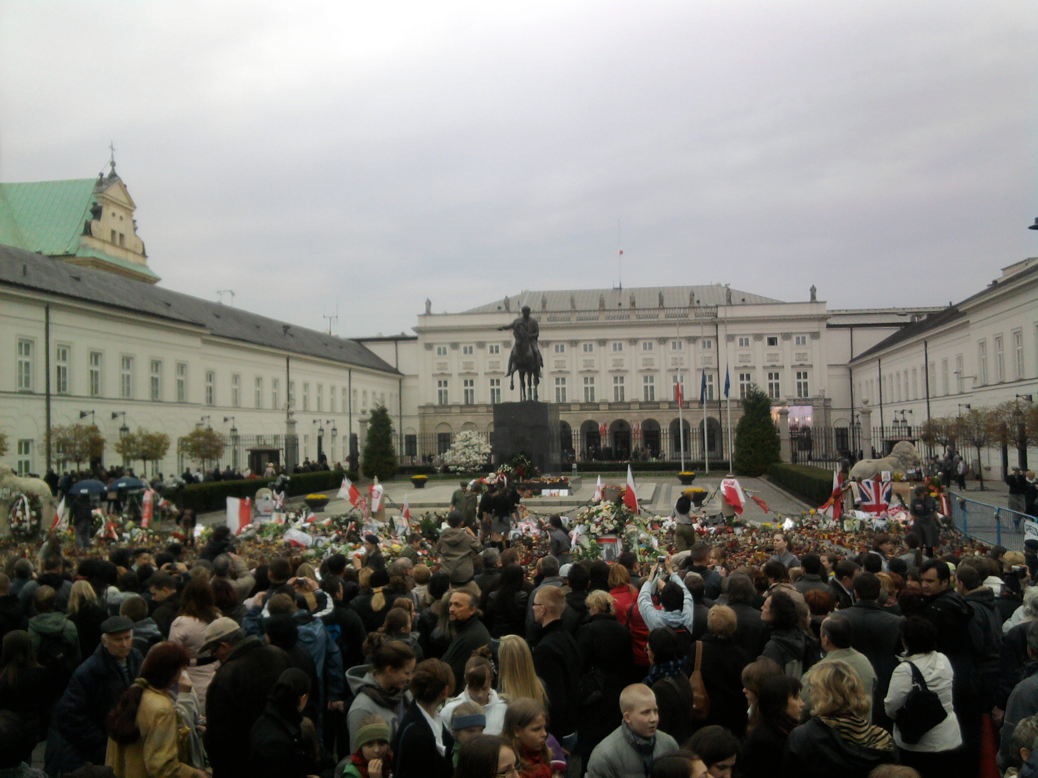 People in front of the Presidential Palace in Warsaw.